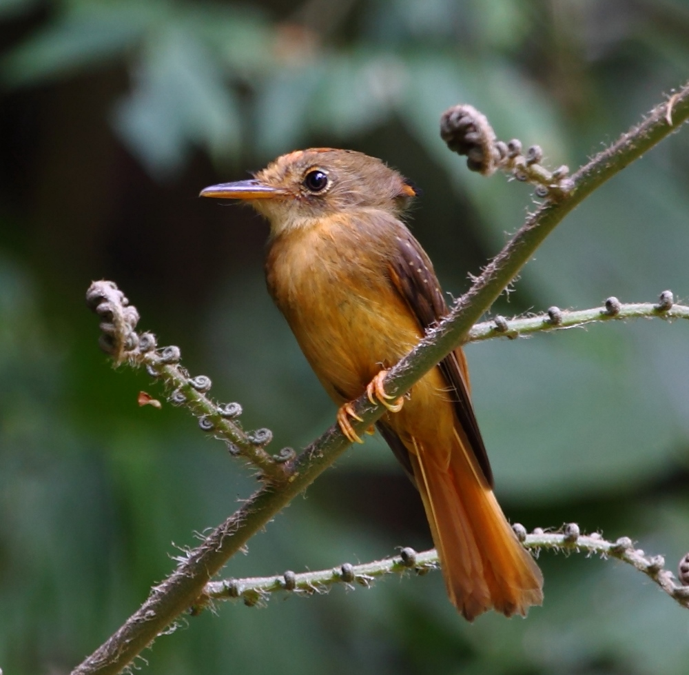 Atlantic Royal Flycatcher at Tapiraí - SP -Brazil